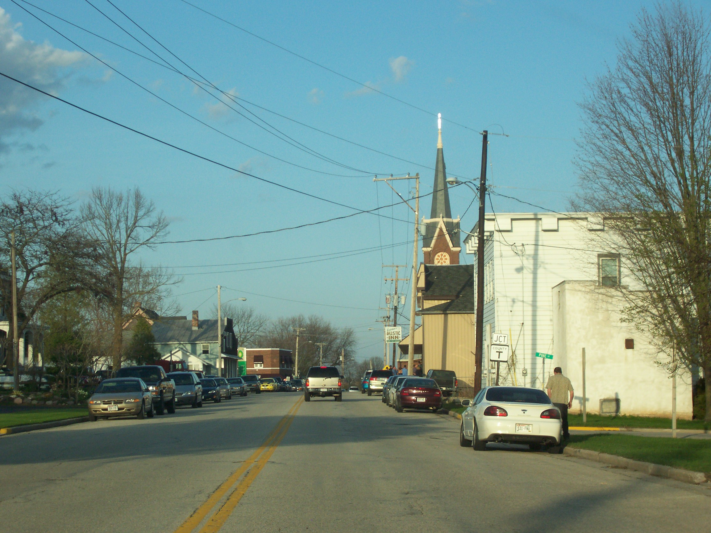 Looking west at downtown Kellnersville, Wisconsin in Manitowoc County, Wisconsin, USA.